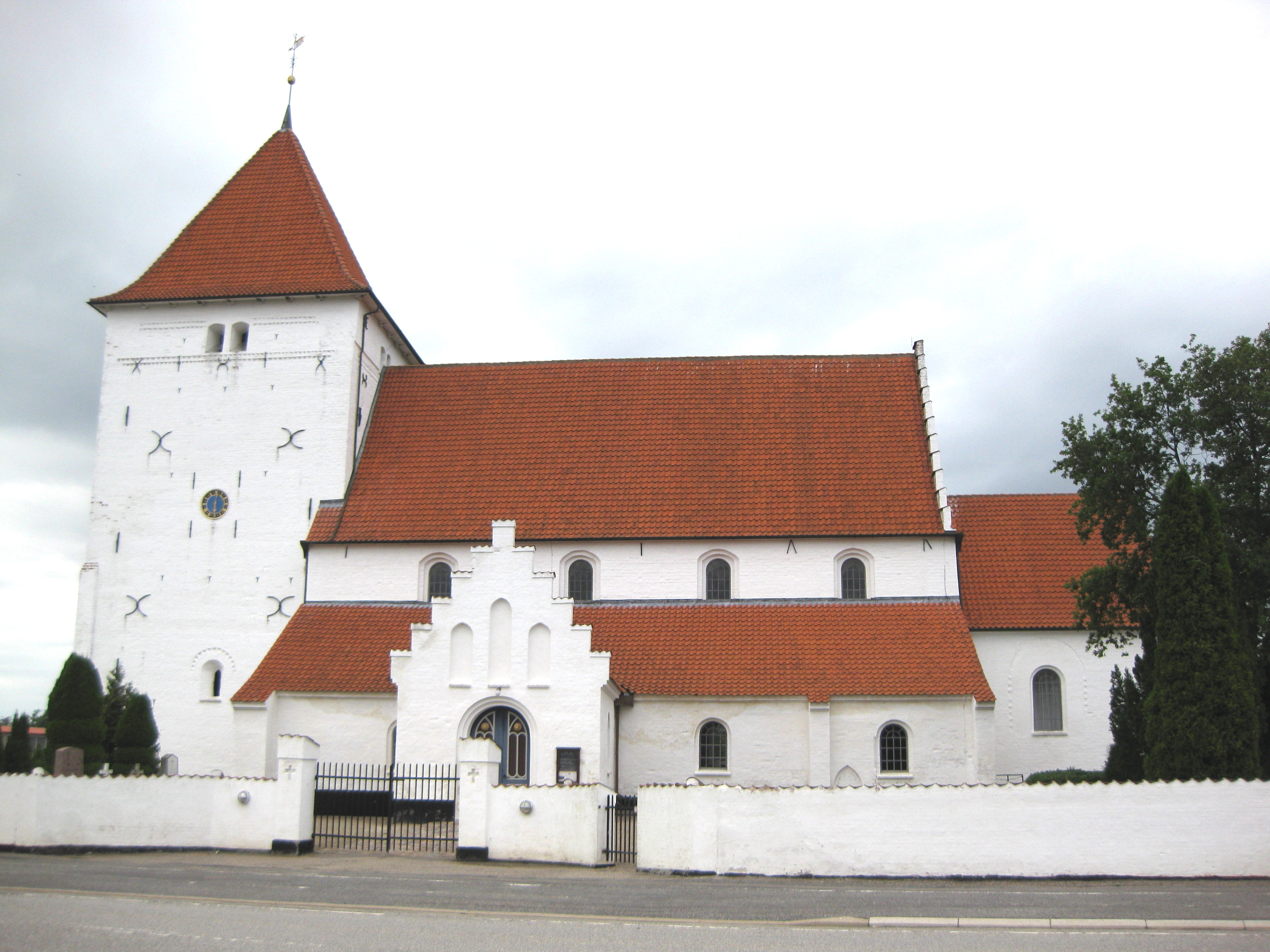 The church "Toreby Kirke" in the village "Toreby". The village is located on the island Lolland in east Denmark.